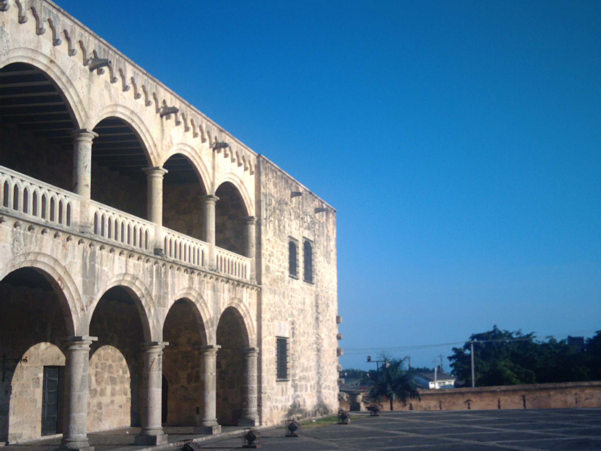 Alcázar de Colón